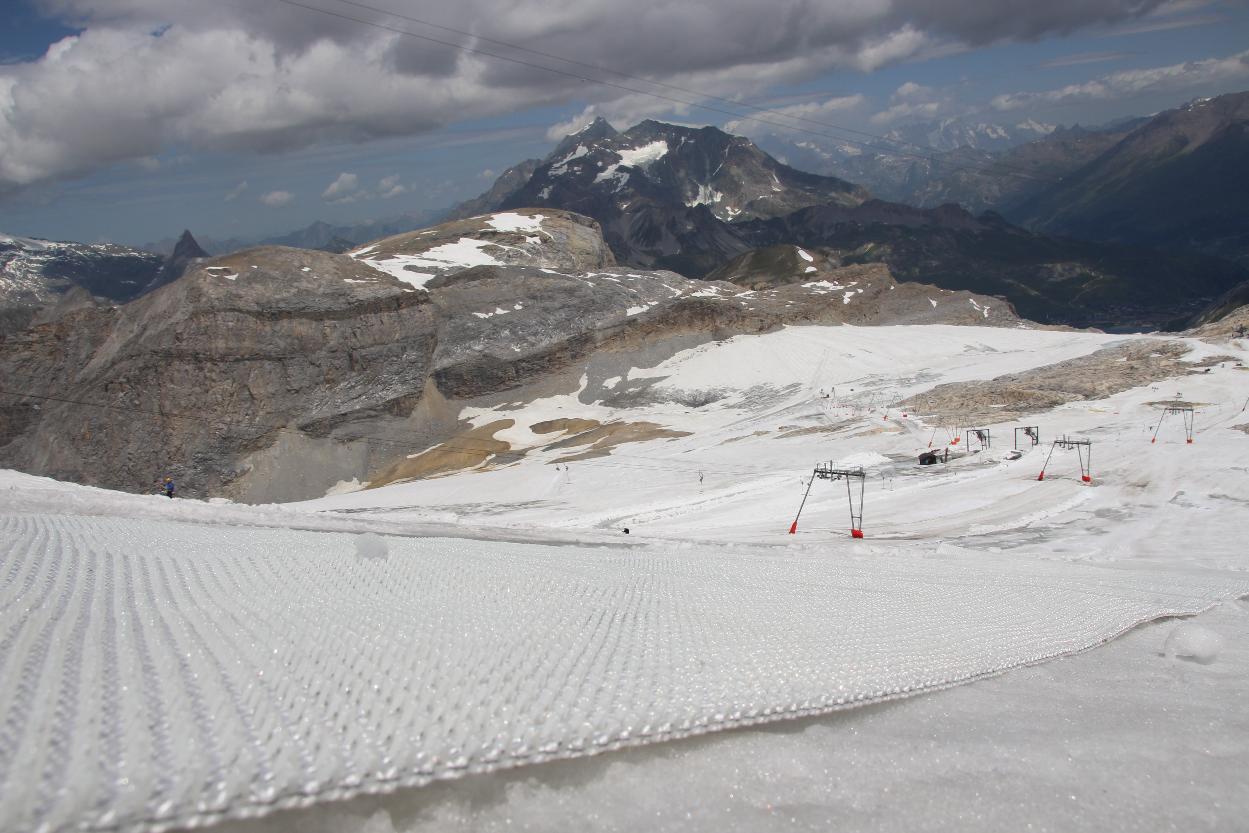 At the glacier of Tignes: Mr. Snow dry slopes